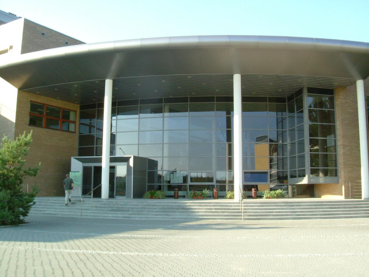 Adam Mickiewicz University in Poznań, Poland